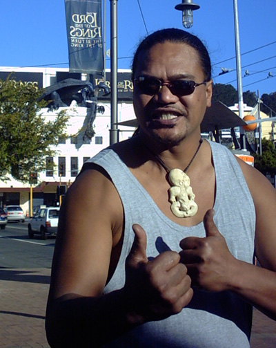 Lawrence Makoare in Wellington, New Zealand. In the background is the Embassy Theater with a life-size figure of, his character, the witch king from the film trilogy "The Lord of the Rings".